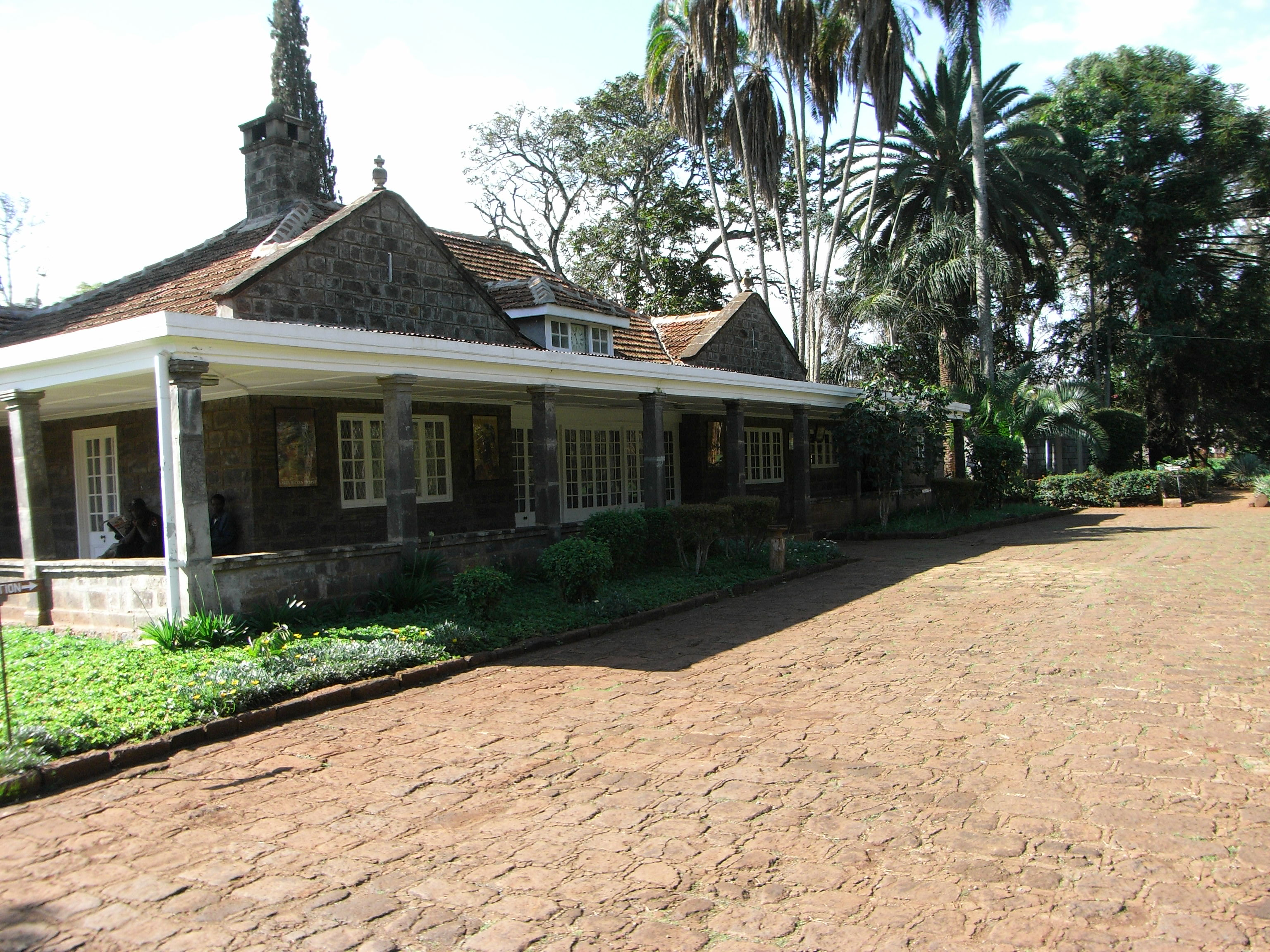 Karen Blixen museum in Nairobi